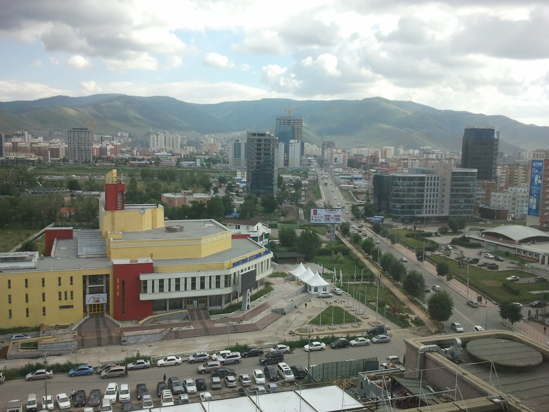 Ulaanbaatar, Mongolia. Looking south. Bogd Khan mountain. Affluent Zaisan district. Children's Palace on left side.